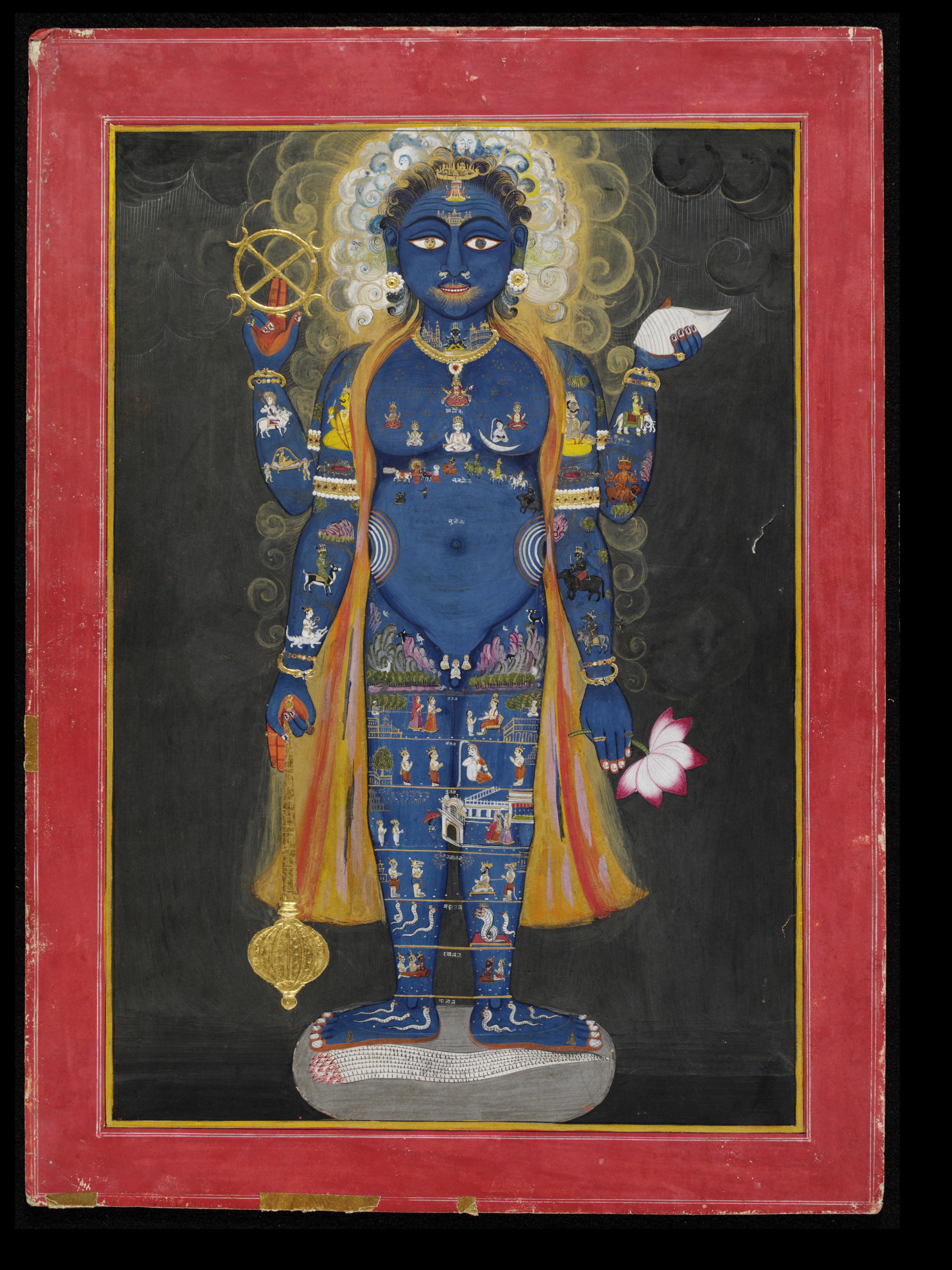 Vishnu Vishvarupa, Victoria and Albert Museum, London